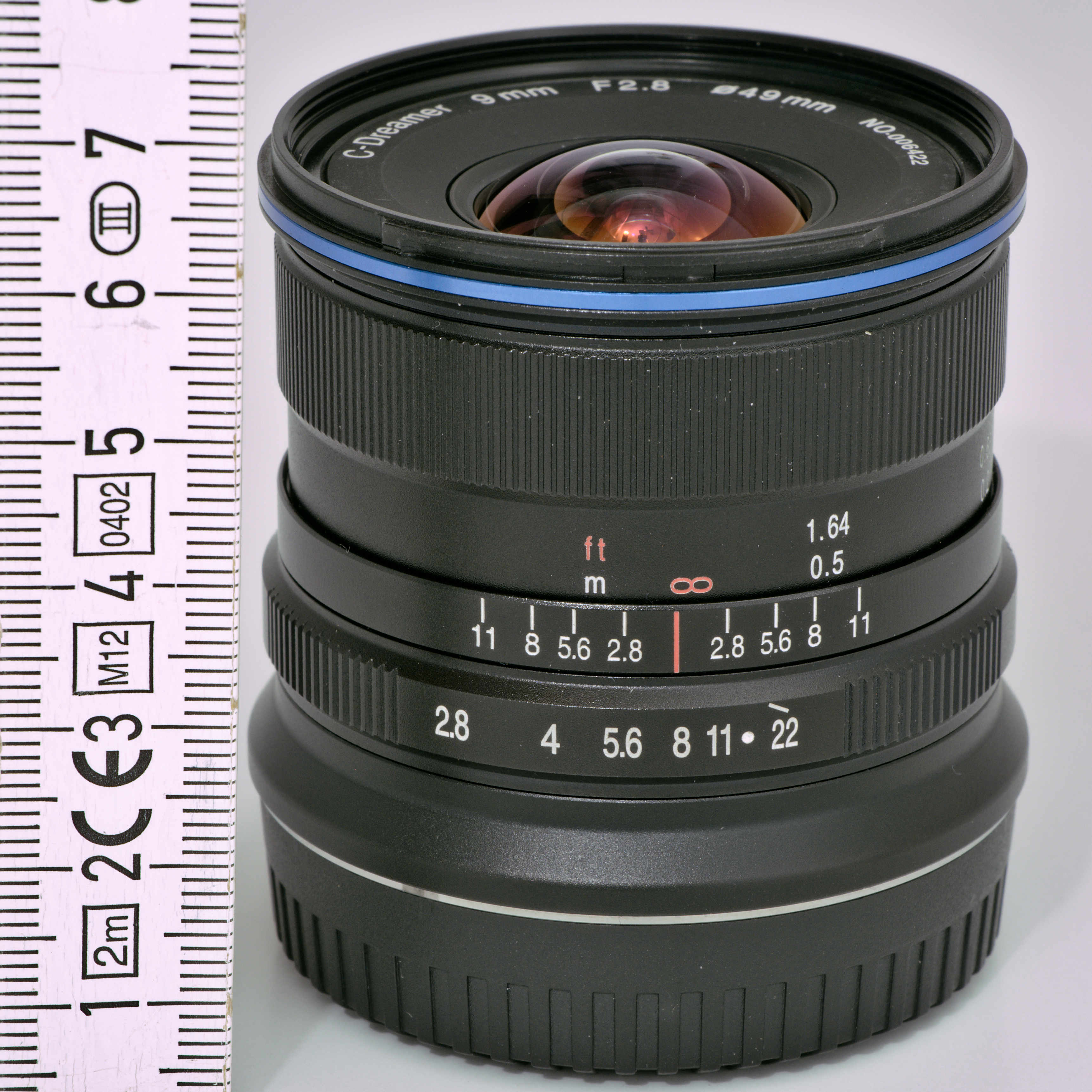 Venus Optics Laowa 9 mm f/2.8 Zero-Distortion Dreamer super wide angle lens without lens hood, version Fuji X-Mount, with pocket rule (unit: cm)